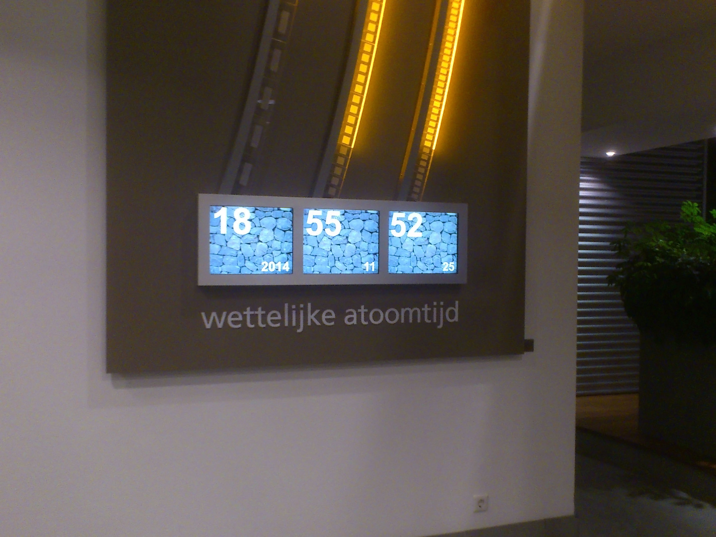 Dutch legal time display in the VSL office in Delft. UTC(VSL) / TAI(VSL) is generated by VSL operated atomic clocks that are part of the International Atomic Time (TAI) time standard. TAI is also the basis for Coordinated Universal Time (UTC).